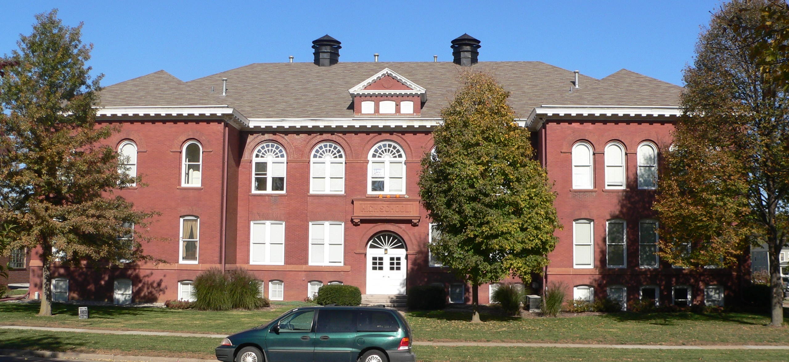 1899 Blair High School building, located at northwest corner of 16th and Colfax Streets in Blair, Nebraska; seen from the south. The Richardsonian Romanesque building is listed in the National Register of Historic Places. It has been converted to apartments.